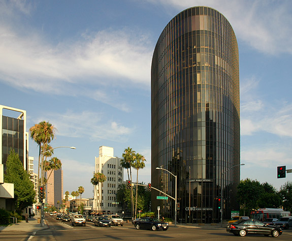 Flynt Publications HQ on Wilshire blvd